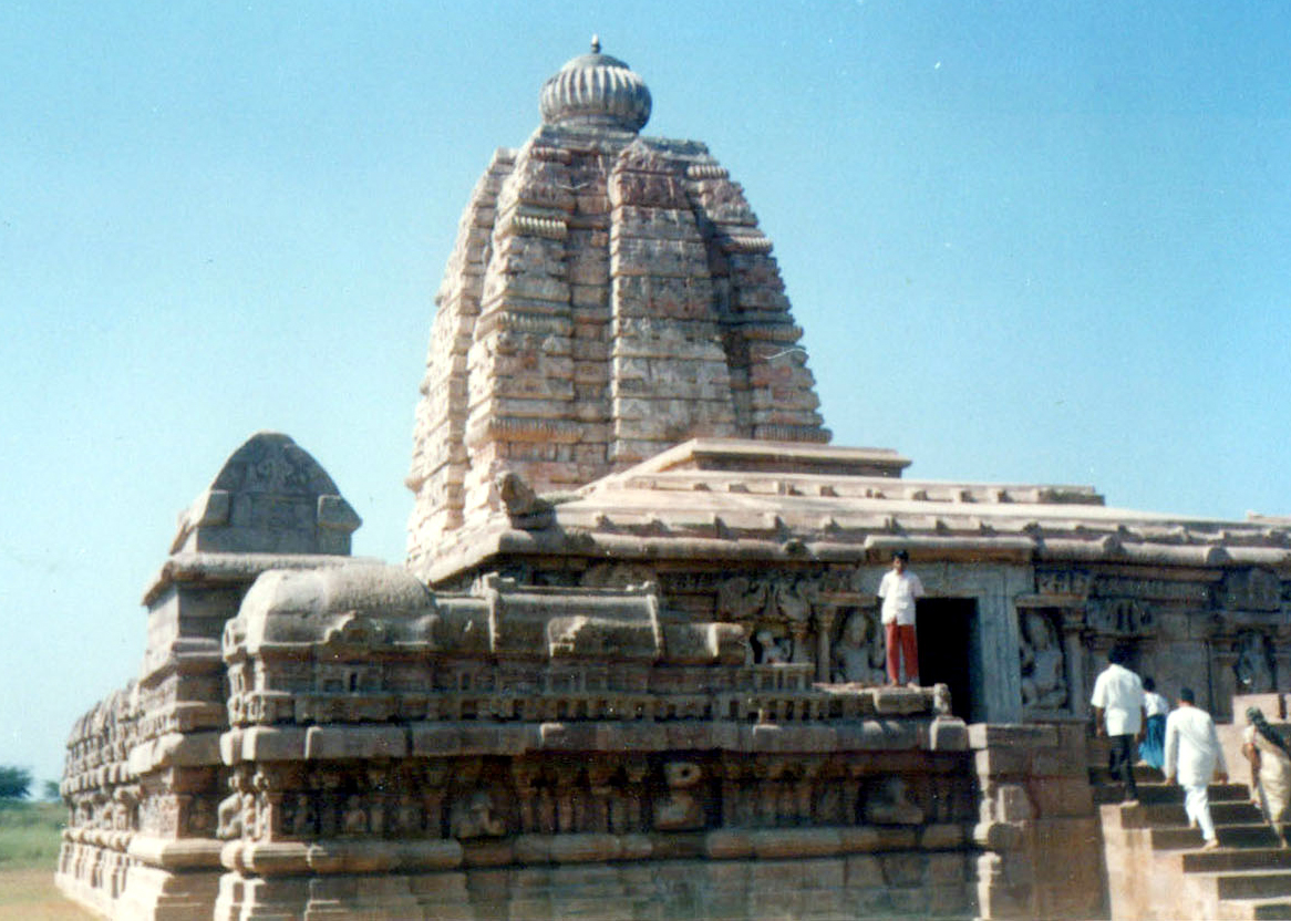 Relocated Sangameshwara Temple at Alampur in Mahbubnagar District, Andhra Pradesh, India